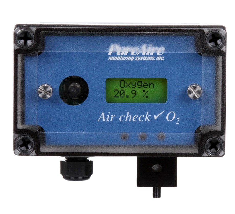 The gas detector is a high-res image, this monitor is a common view-able image when searching for a safety gas monitor. A fixed or stand-alone gas monitor comes with a sensor, audible alarms, relays, and 4-20mA signals for connections into fire panels.